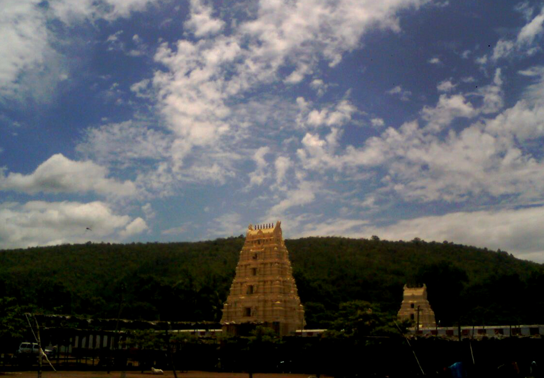 Mahanandi Temple Gopuram, Kurnool district, Andhra Pradesh